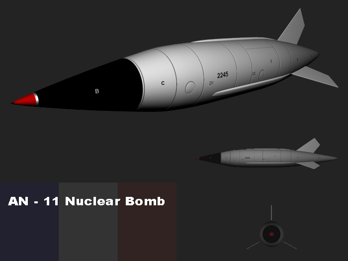 3D model of the AN-11 french nuclear bomb (first test in 1964).